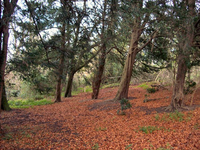 Barton Stacey - Barton Wood Autumn colours in the woods.